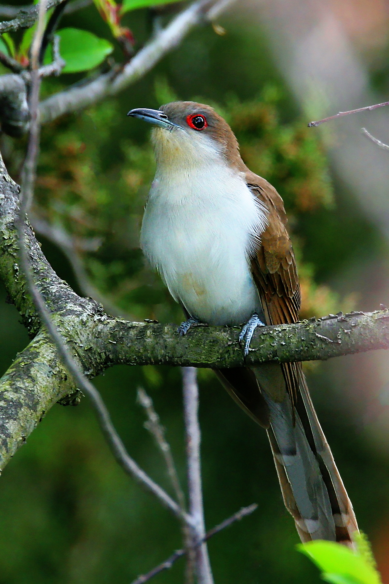 Black-Billed Cuckoo / Coccyzus erythropthalmus